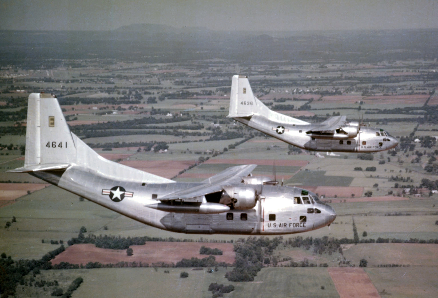 U.S. Air Force Fairchild C-123B-7-FA Provider aircraft (s/n 54-636, 54-641) in flight in the U.S. in the 1950s.